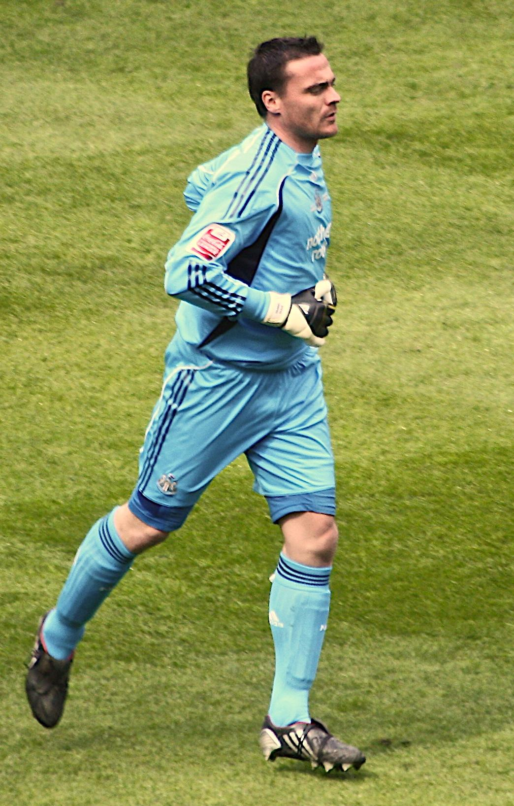 Steve Harper playing against Ipswich